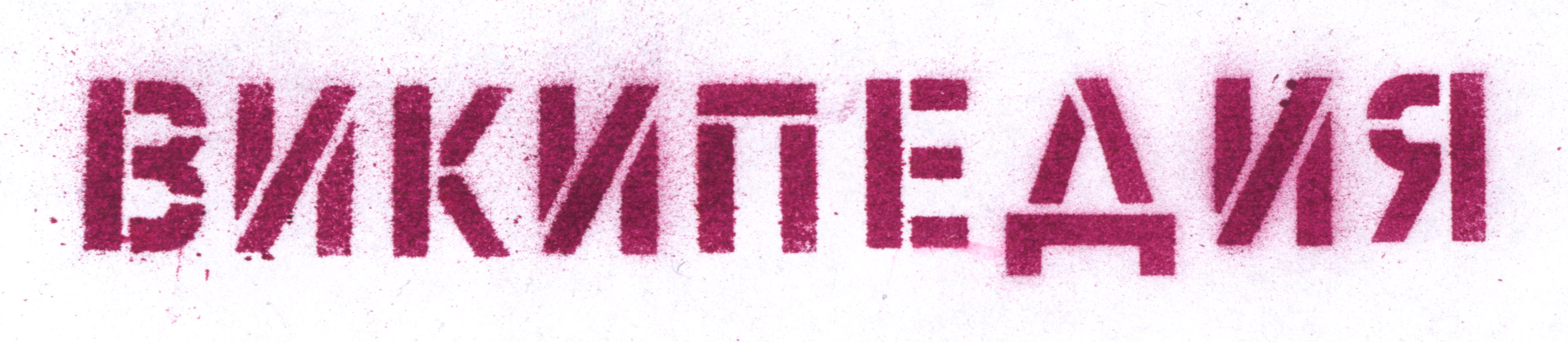 Word “Википедия” (Wikipedia) written using stencil.